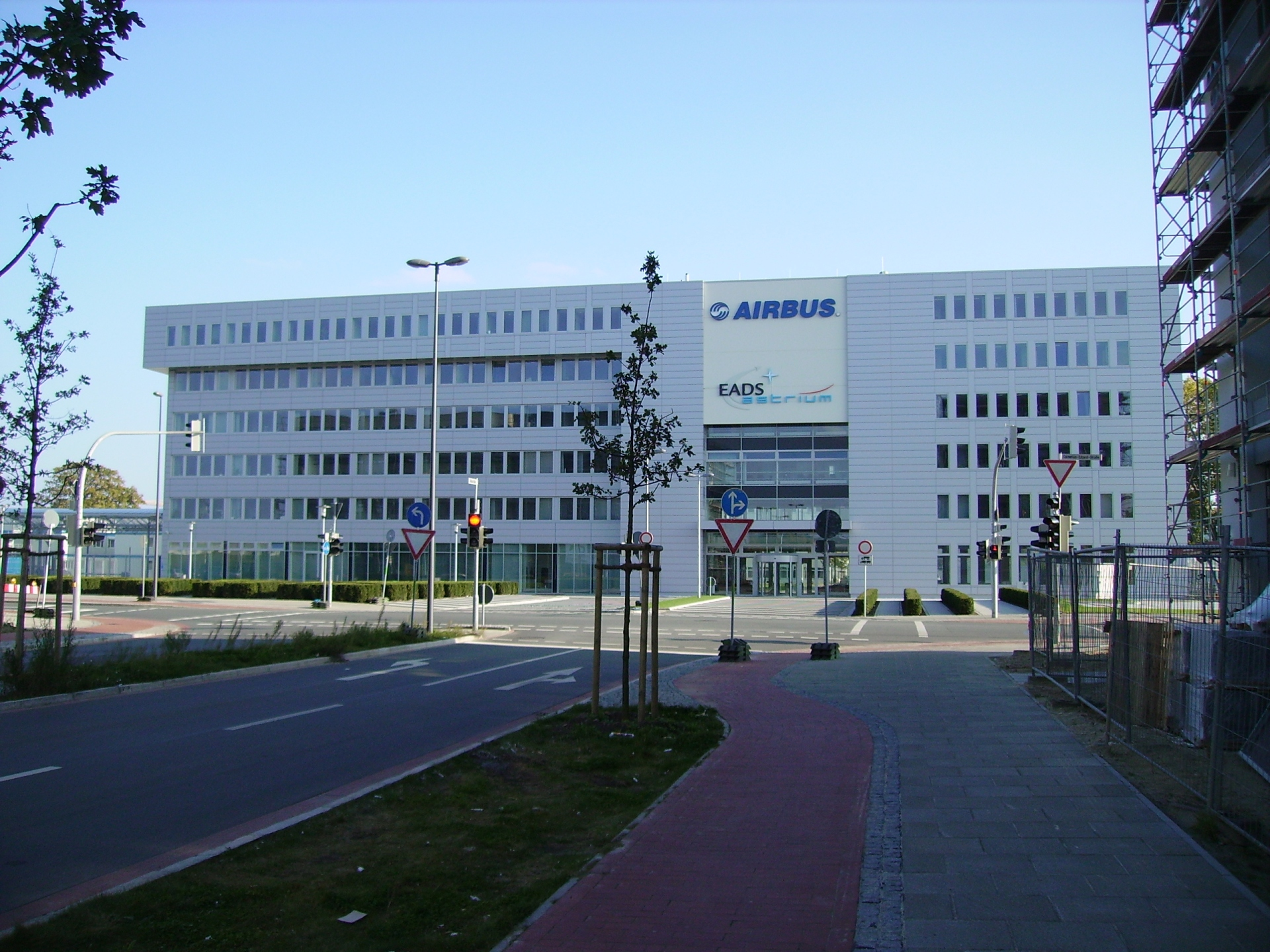 Administration building of Airbus EADS in Bremen, Germany